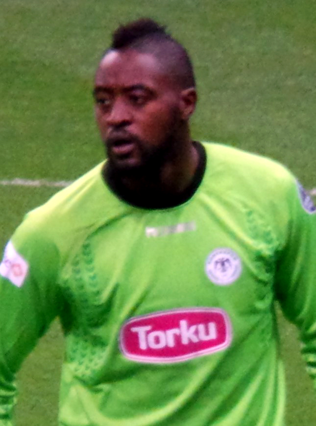 Charles Itandje in 2013 with Torku Konyaspor against Galatasaray